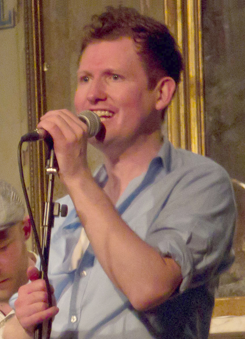 Andrew Montgomery, Islington London 2011